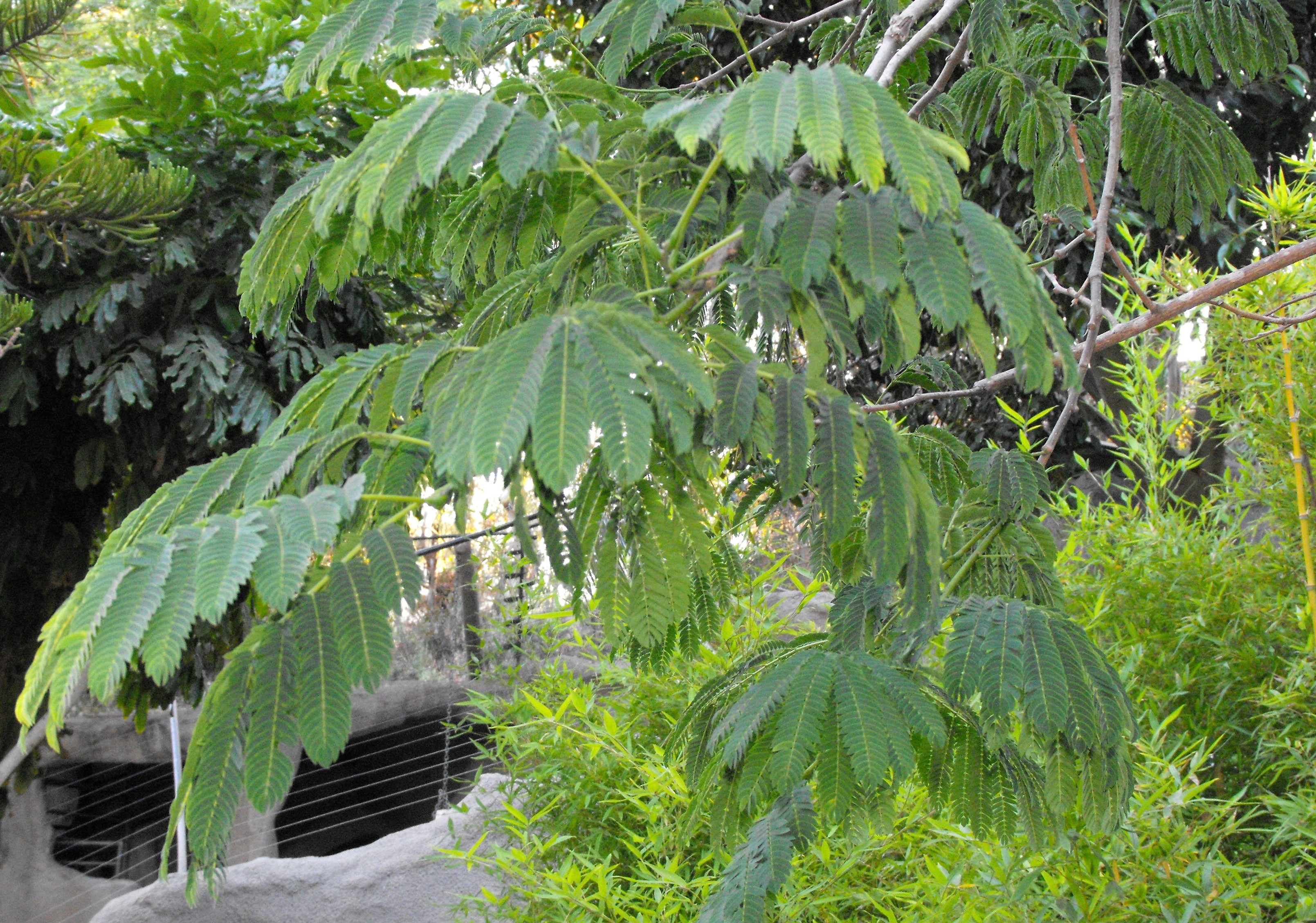 Enterolobium contortisiliquum at the San Diego Zoo, California, USA. Identified by sign.